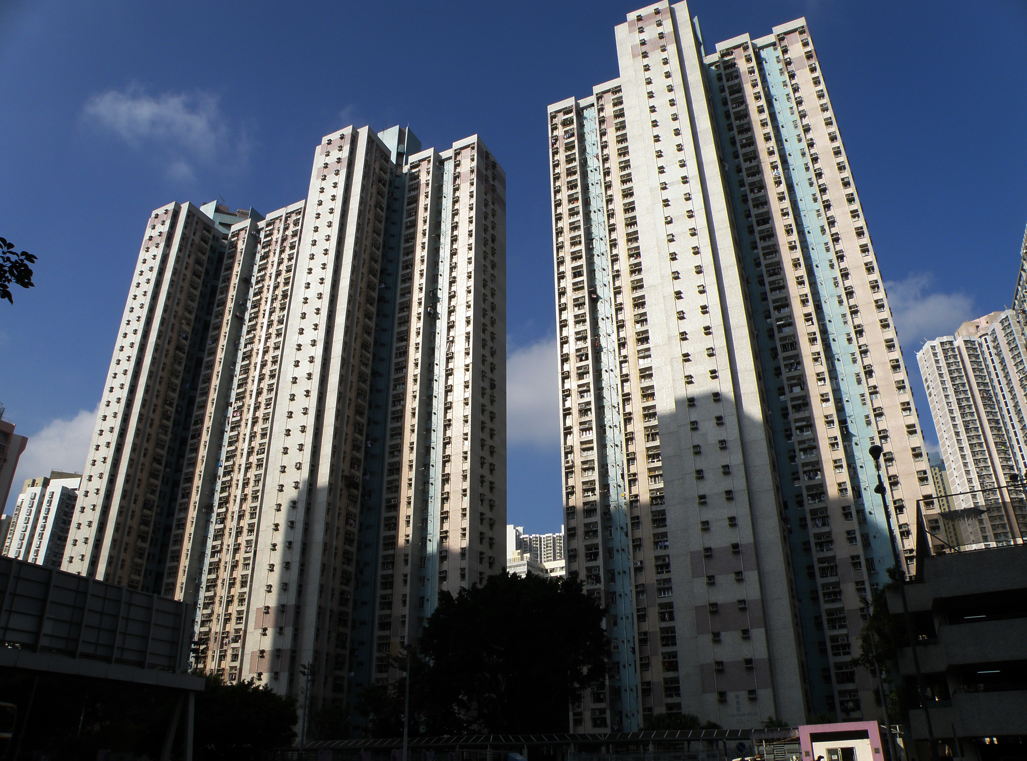 Kwai Chun Court in Kwai Hing, Hong Kong.